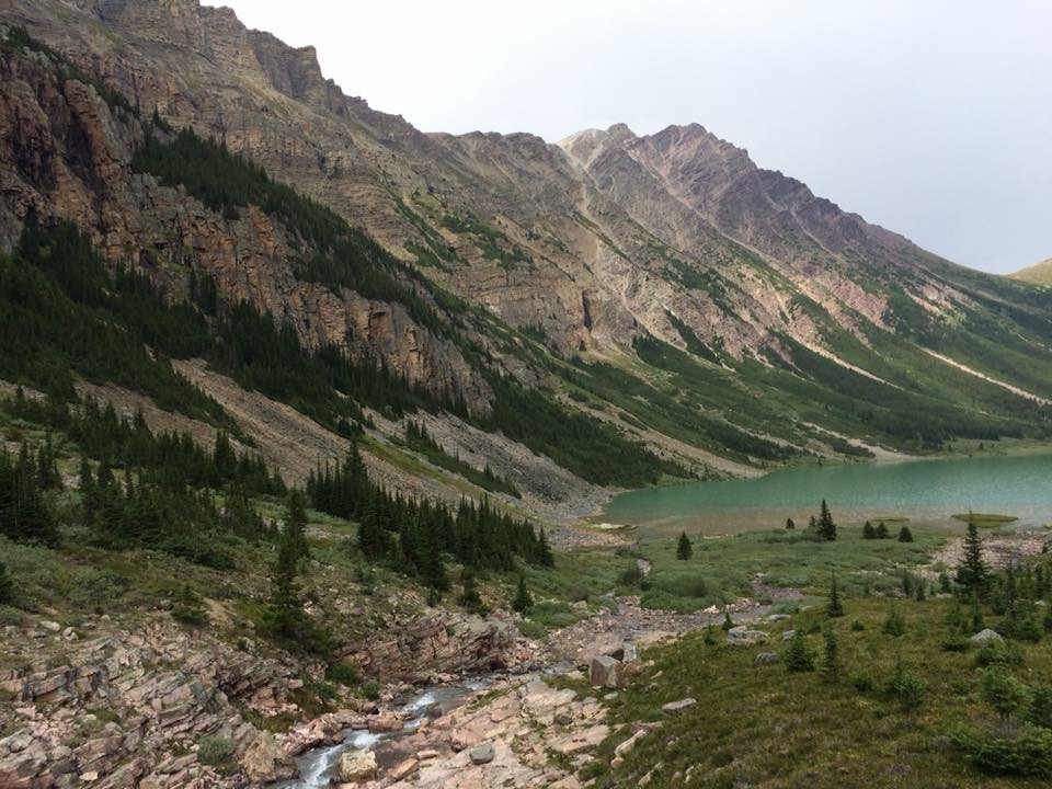 Lake of the Falls -Sifleur Wilderness Area This photo was taken in a protected area in Canada, Wikidata item Siffleur Wilderness Area (Q2828326)